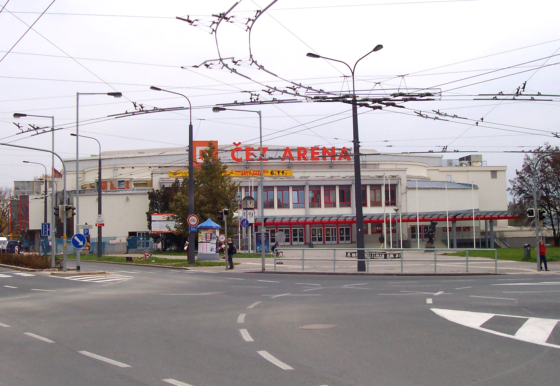 Ice hockey stadium at Sukova street in Pardubice, Czech Republic